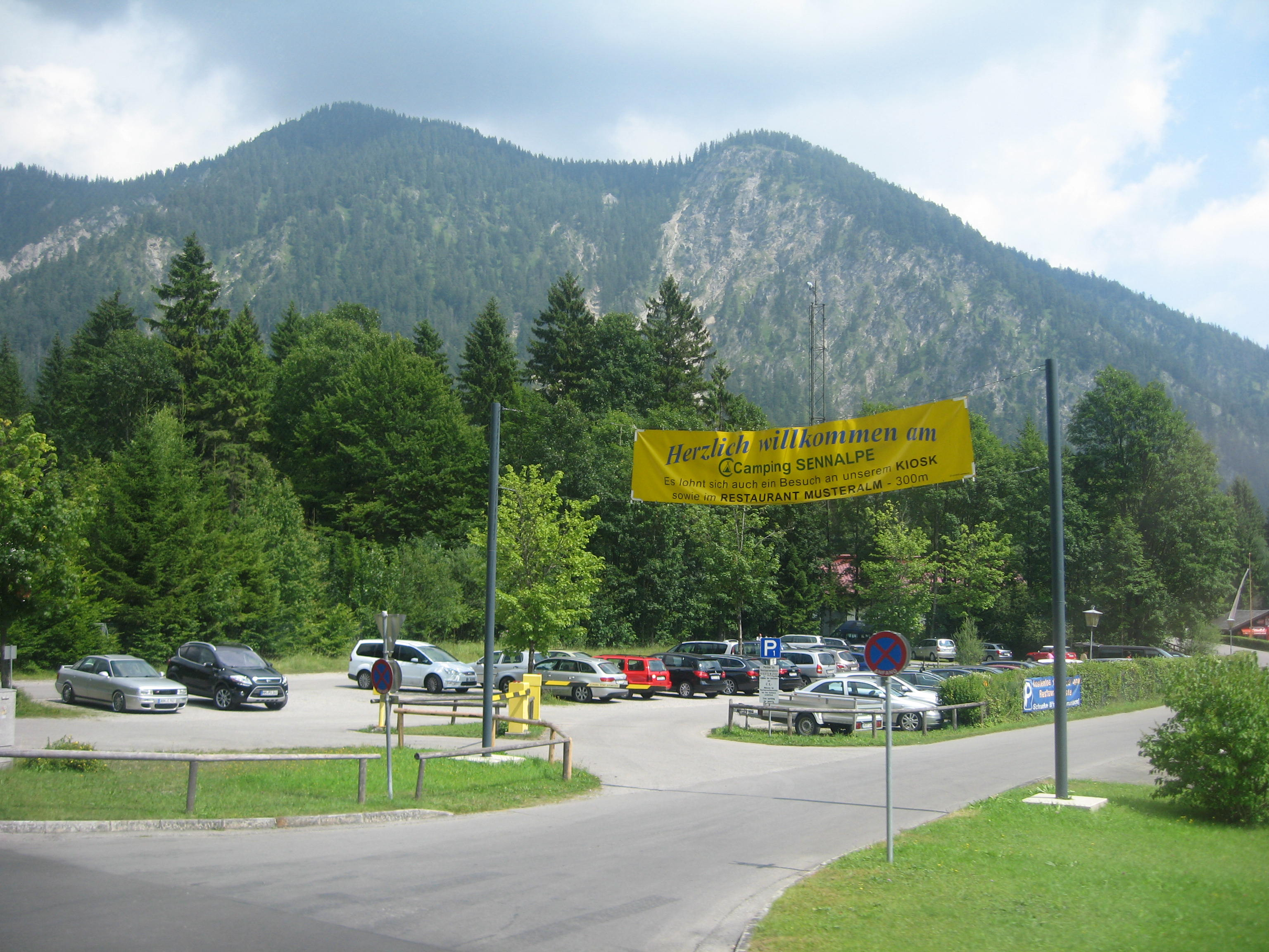 Ammergauer Alpen